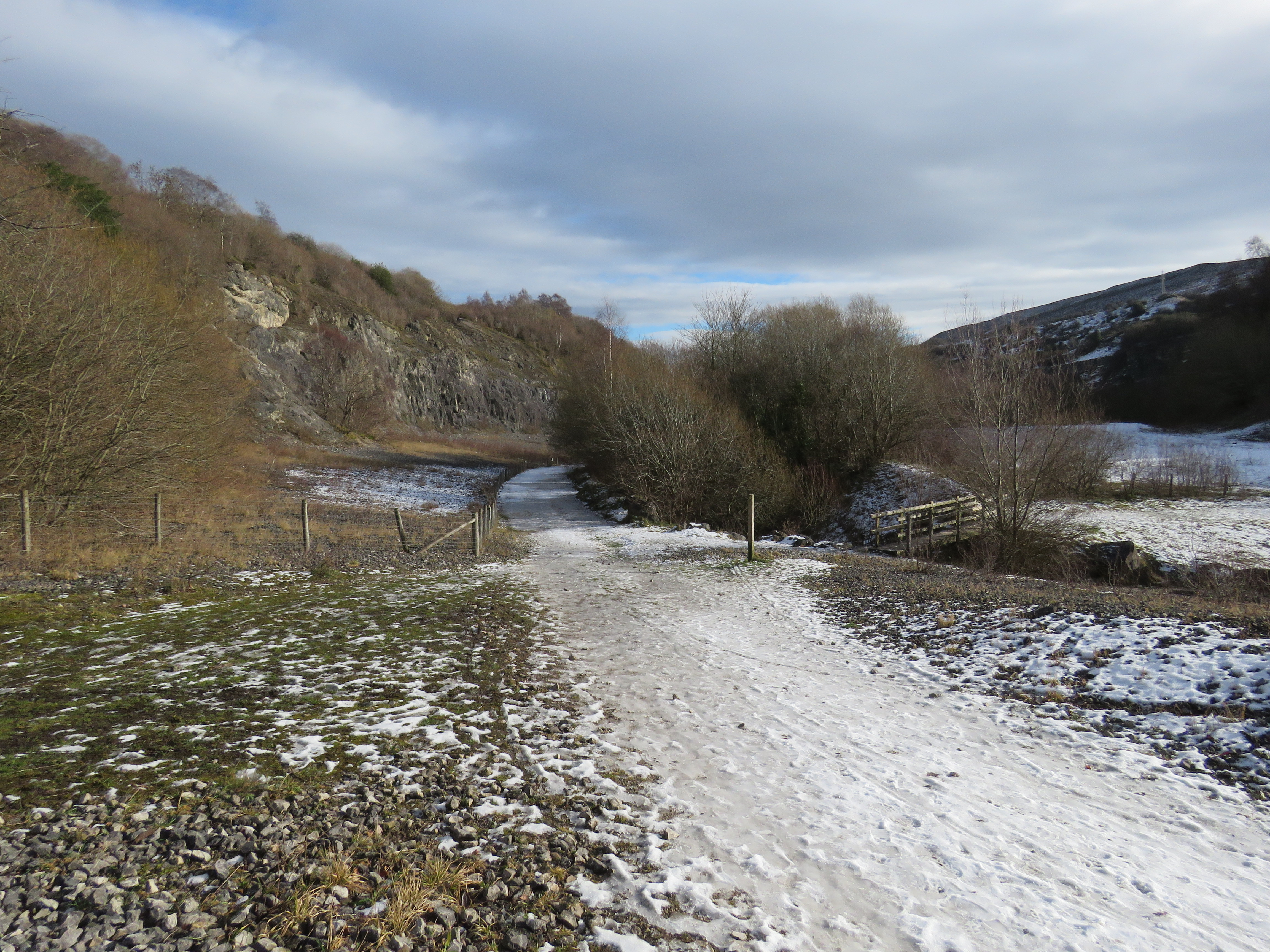 General view of Minera country park in Wrexham, Wales; a disused limestone quarry